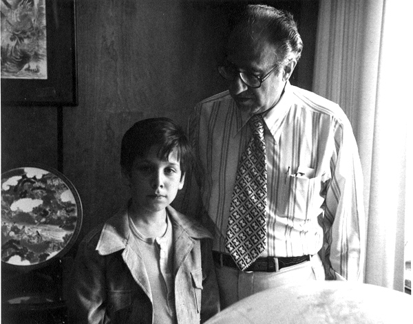 Philip Habib and his grand nephew Gregory Cohen in his offices at the State Department. 1976. Photo by Erwin Cohen.